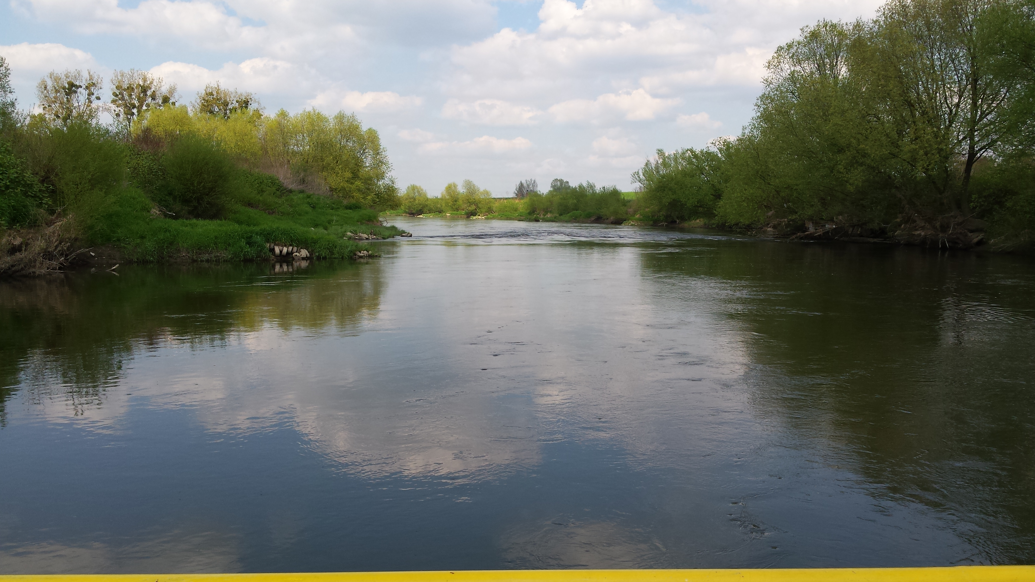 River Odra in Grzegorzowice (Gregorsdorf)